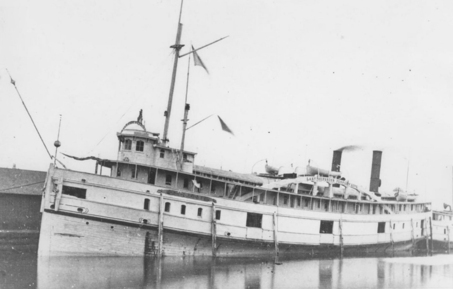 The steamer Muskegon prior to her sinking